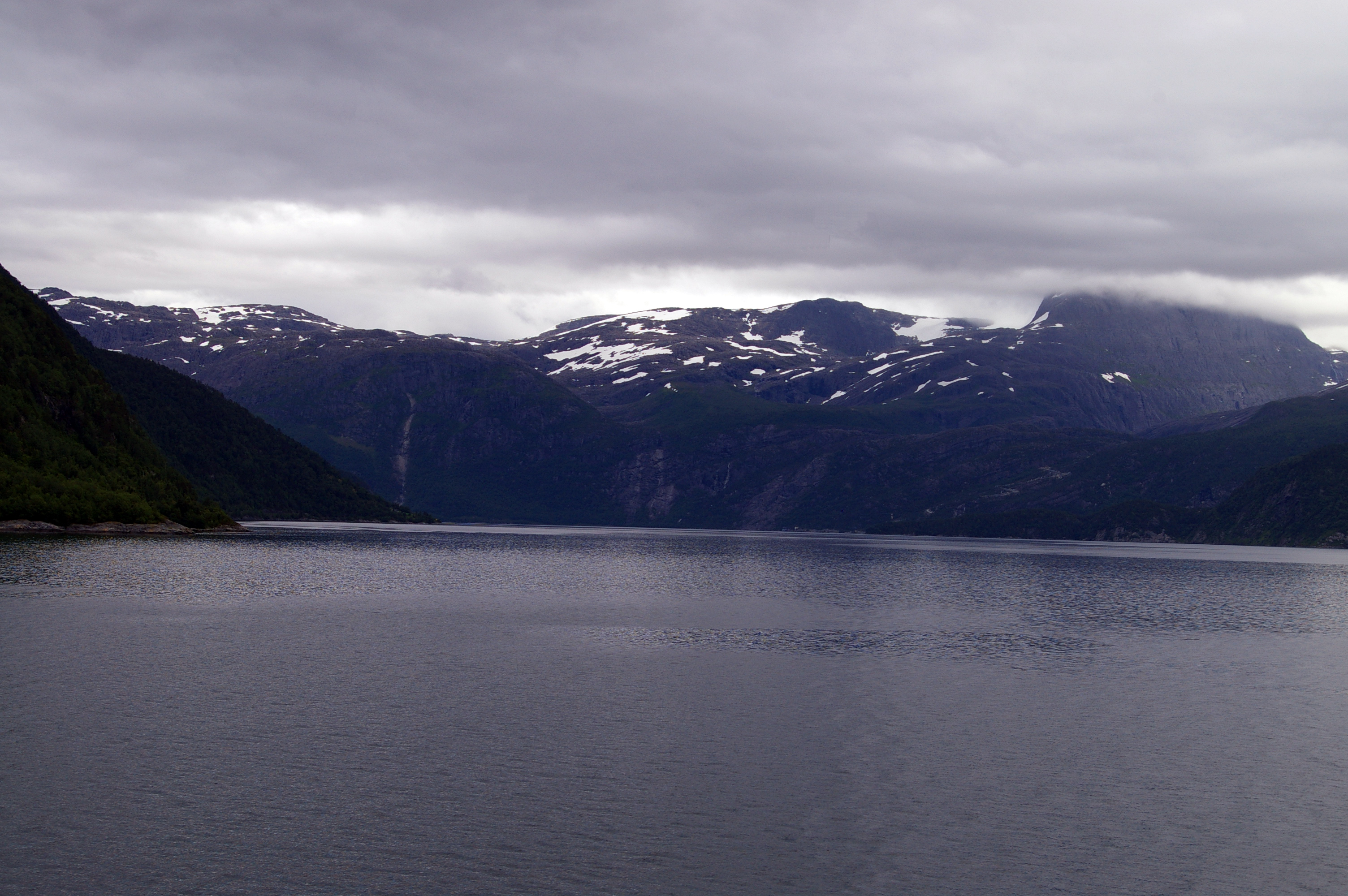 Isefjorden, a part of Nordfjord in Eid and Bremanger, Sogn og Fjordane, Norway